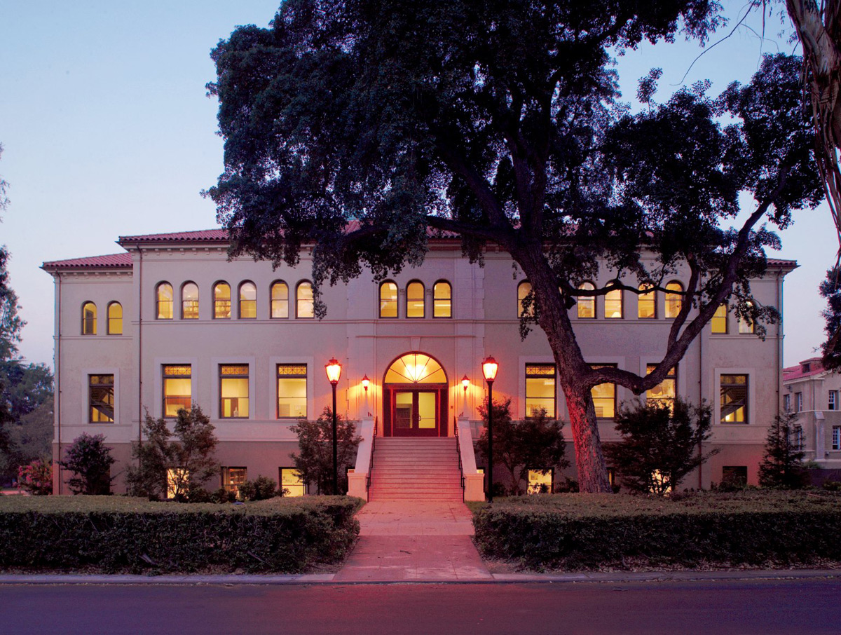 Pearsons Hall for Classics and Philosophy